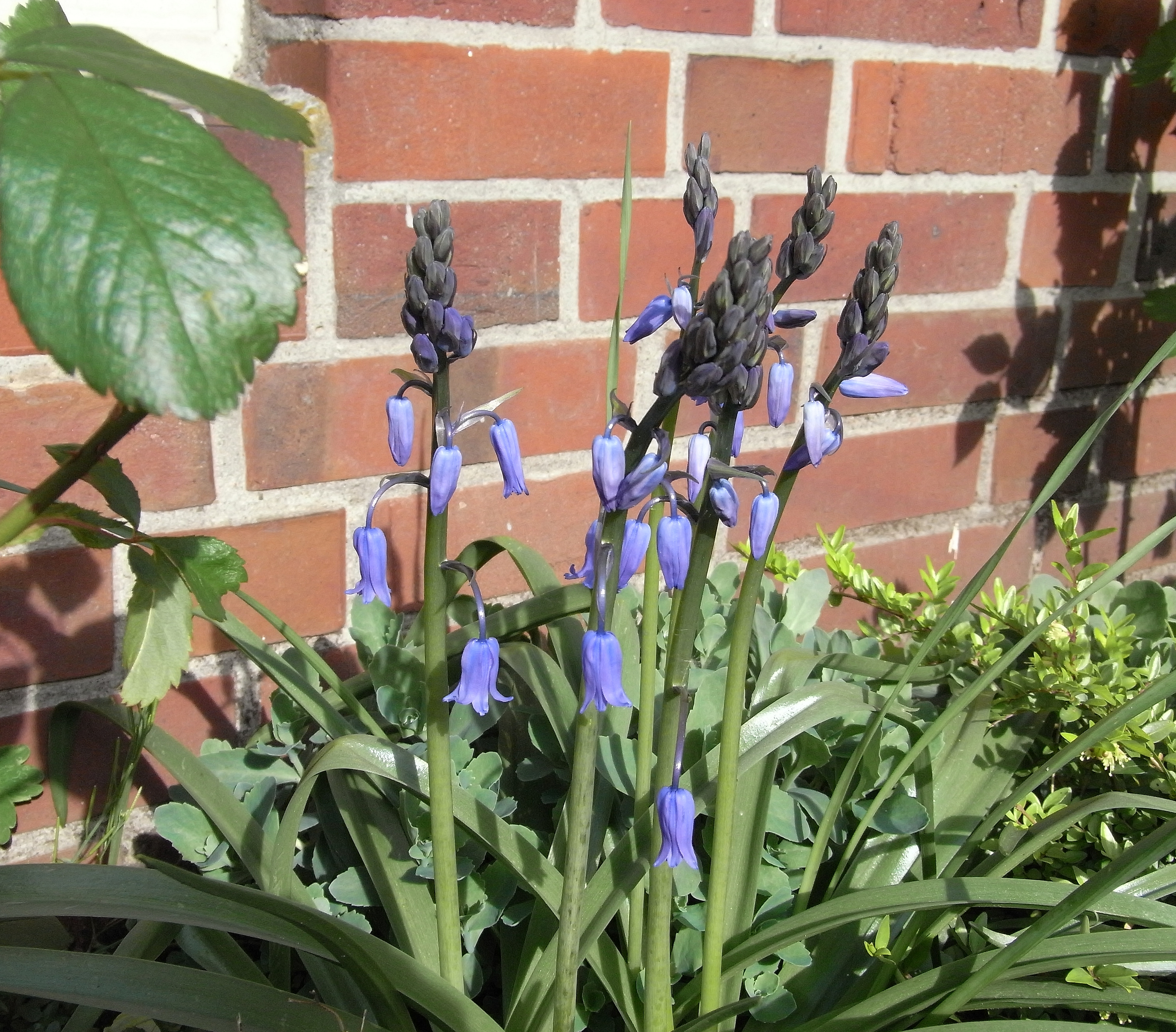 Flower